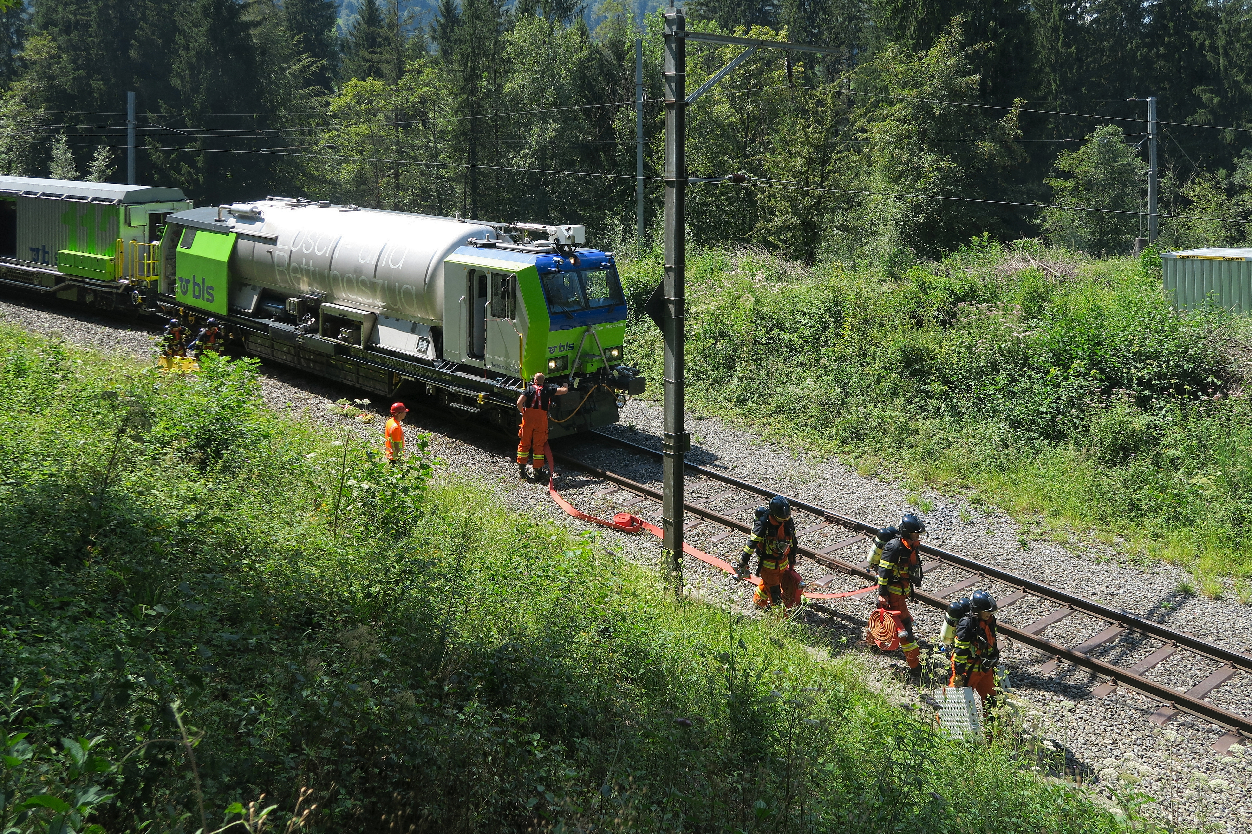 The fire service of BLS arrives at the tunnel with the fire and rescue train. Switzerland, Aug 16, 2016. (26/34)